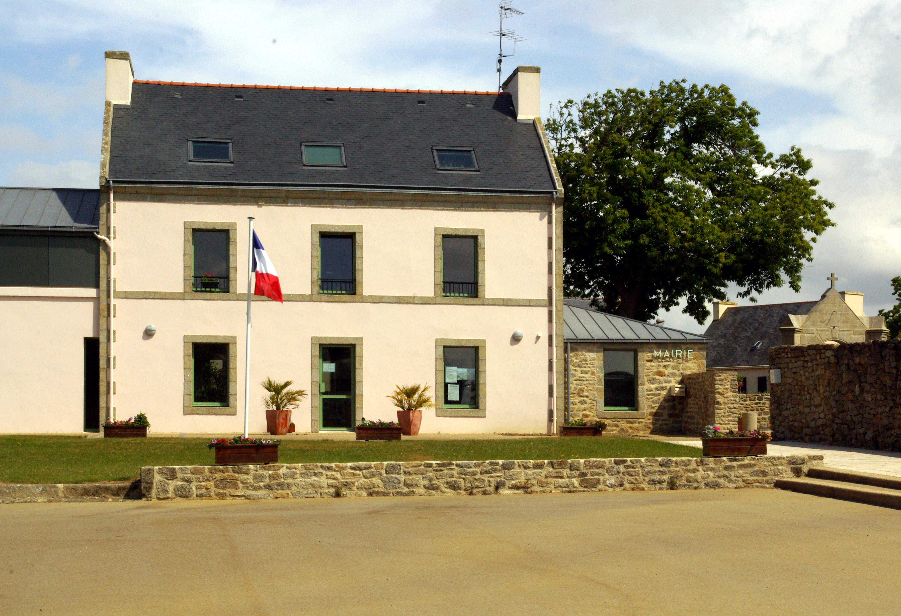 City Hall of Kerlaz